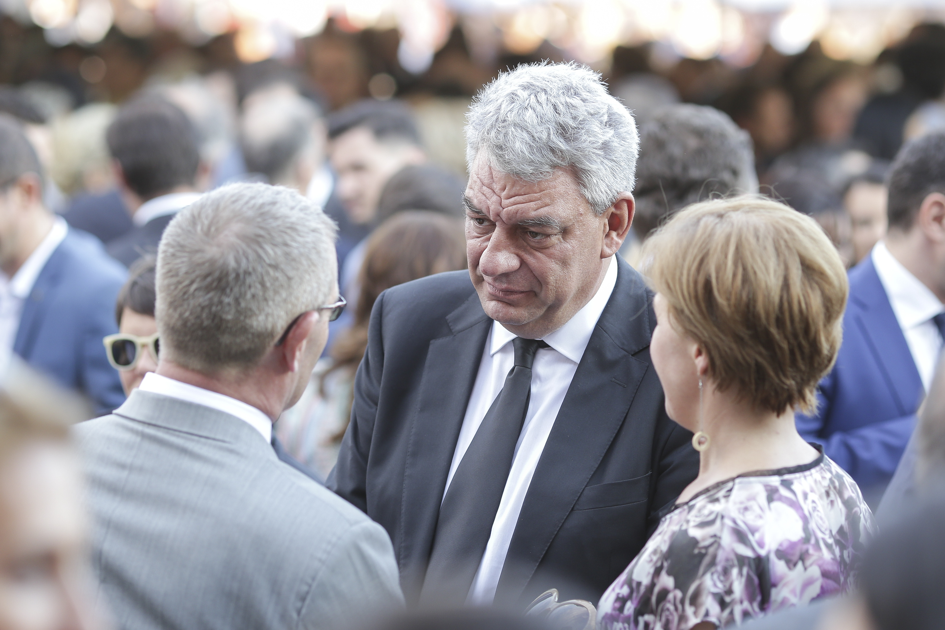 170507_4th_2017_319_Inquam_Photos_Octav_Ganea